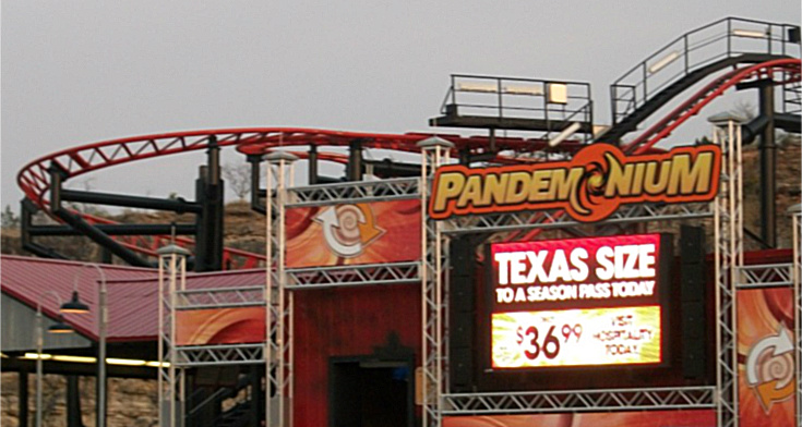 Pandemonium at Six Flags Fiesta Texas on September 4, 2011.